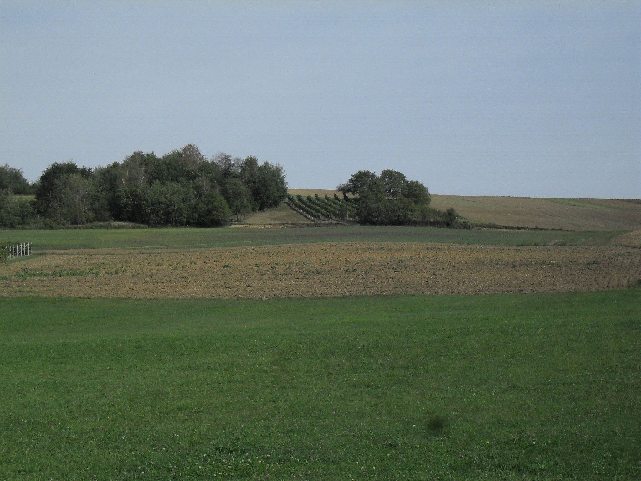 Ratkovci, Prekmurje